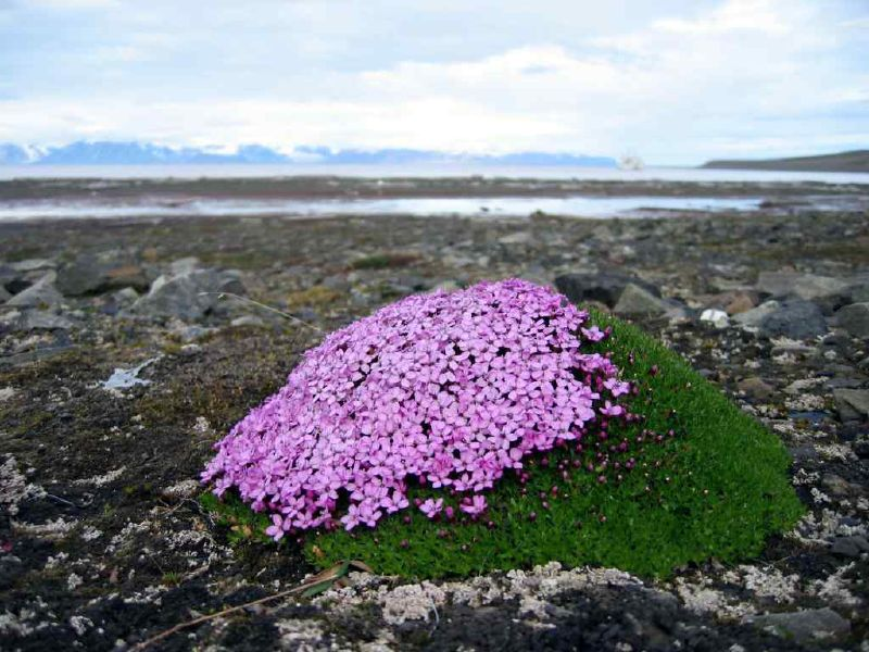 Silene acaulis. Arctic flowers have to be hardy and grow in tight little clumps.Mossy Campion